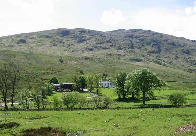 Doune. Doune Farm beneath Doune Hill, the highest of the Luss Hills.